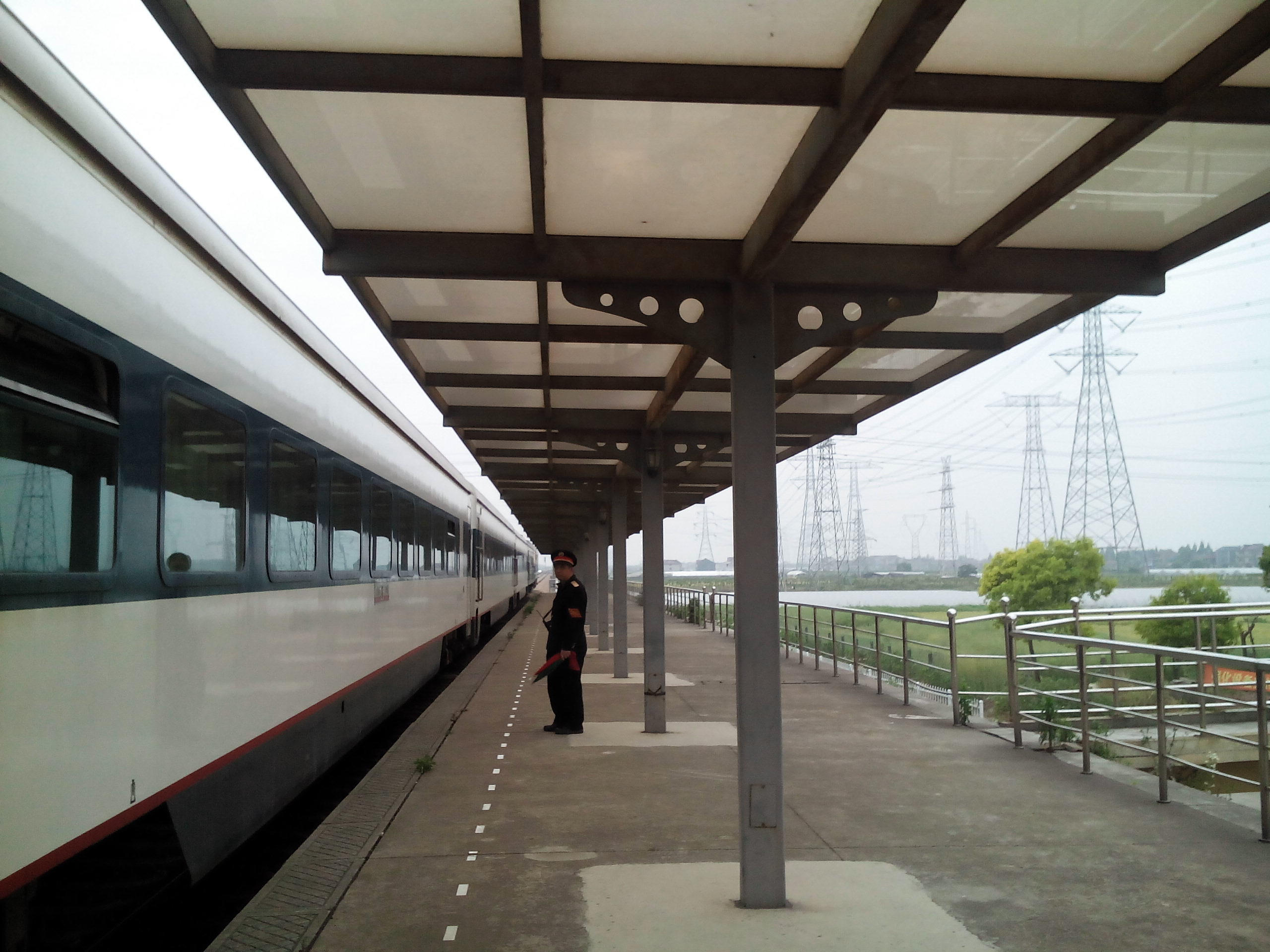 Platform of Haiwan Railway Station